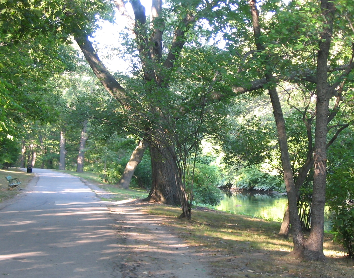 Olmsted Park, Boston.